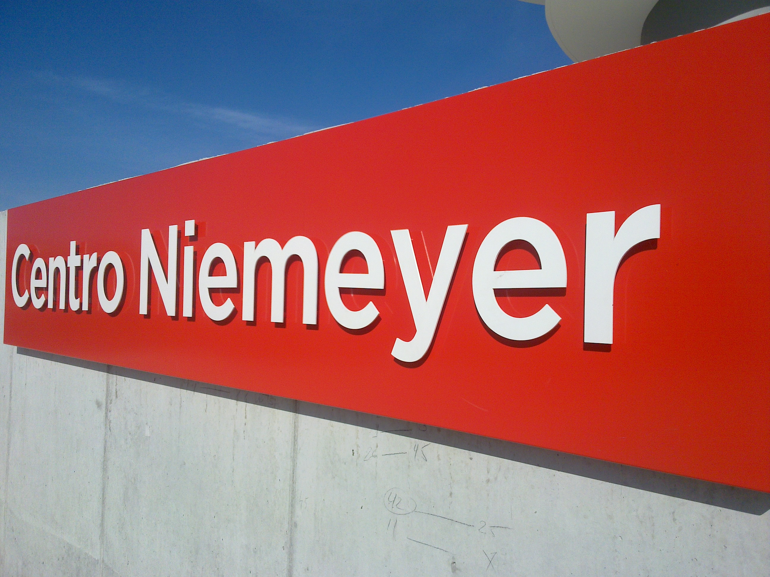 Centro Niemeyer logo